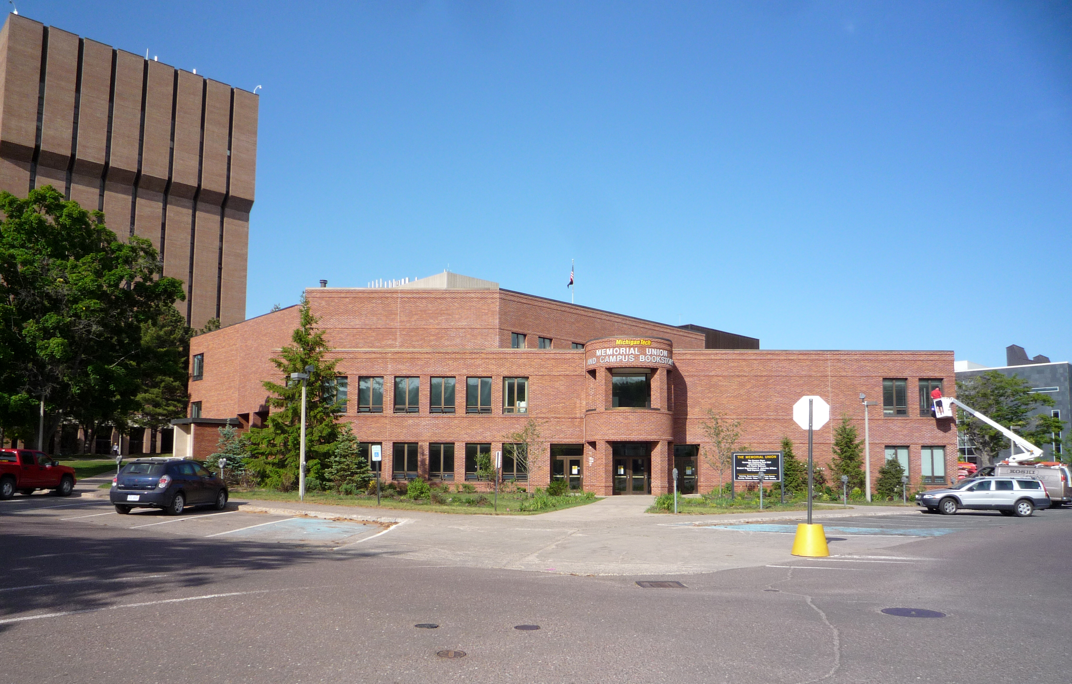 Memorial Union, Michigan Technological University, Houghton, Michigan, USA.